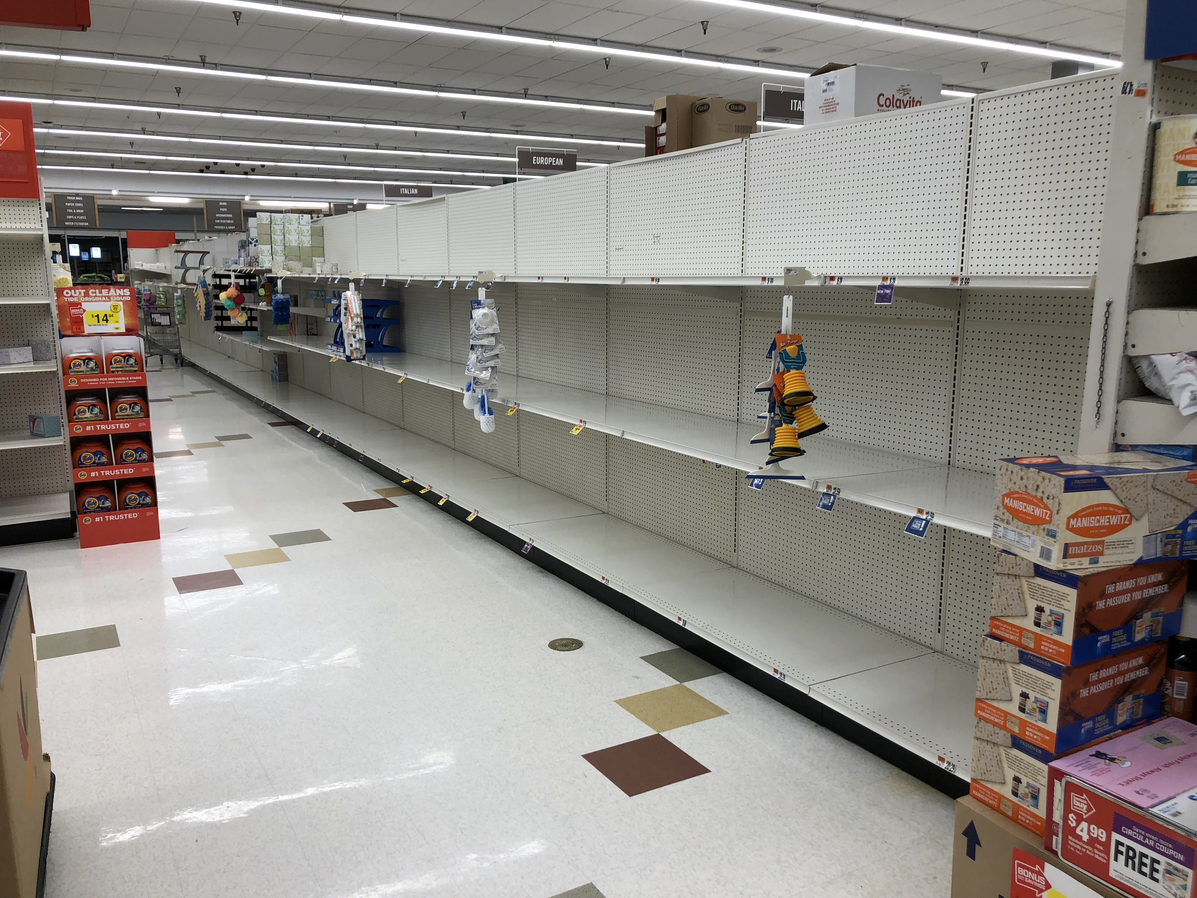 Bare shelves due to panic buying in the Giant supermarket at the Franklin Farm Village Shopping Center in the Franklin Farm section of Oak Hill, Fairfax County, Virginia during the COVID-19 corona virus pandemic